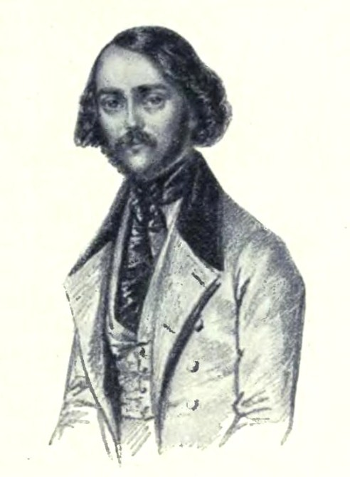 Italian opera singer Giovanni Belletti. After a drawing by Maria Röhl 1841. Image from Nils Personne: Svenska Teatern VIII (1927).